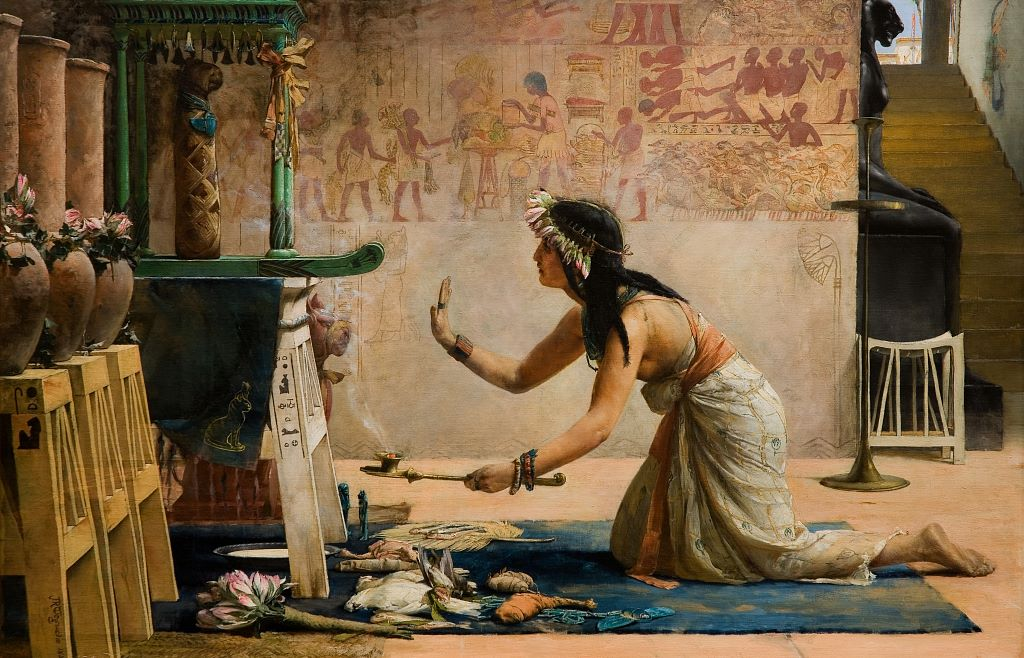 A priestess offers gifts of food and milk to the spirit of a cat. On an altar stands the mummy of the deceased, and the tomb is decorated with frescoes, urns of fresh flowers, lotus blossoms, and statuettes. The priestess kneels as she wafts incense smoke toward the altar. In the background, a statue of Sekhmet or Bastet guards the entrance to the tomb.